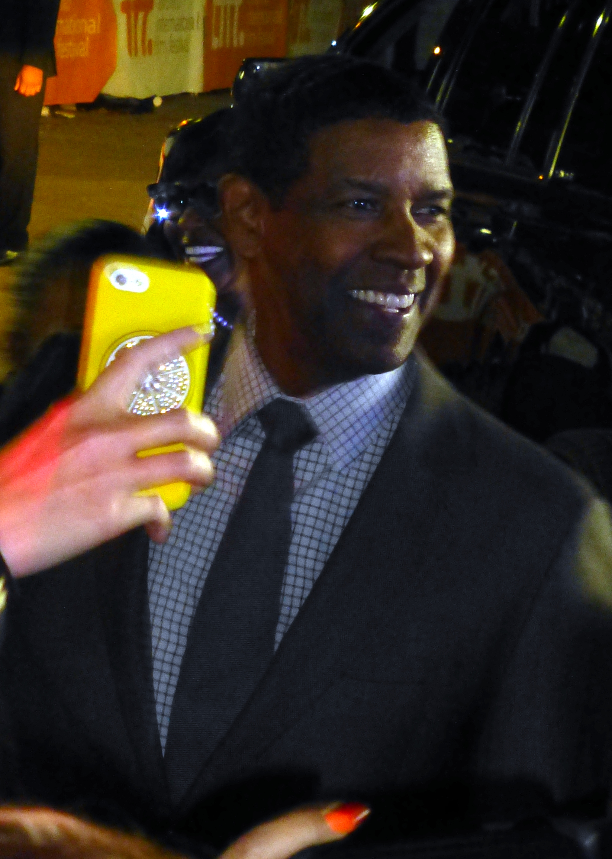 Denzel Washington at the premiere of The Equalizer, 2014 Toronto Film Festival